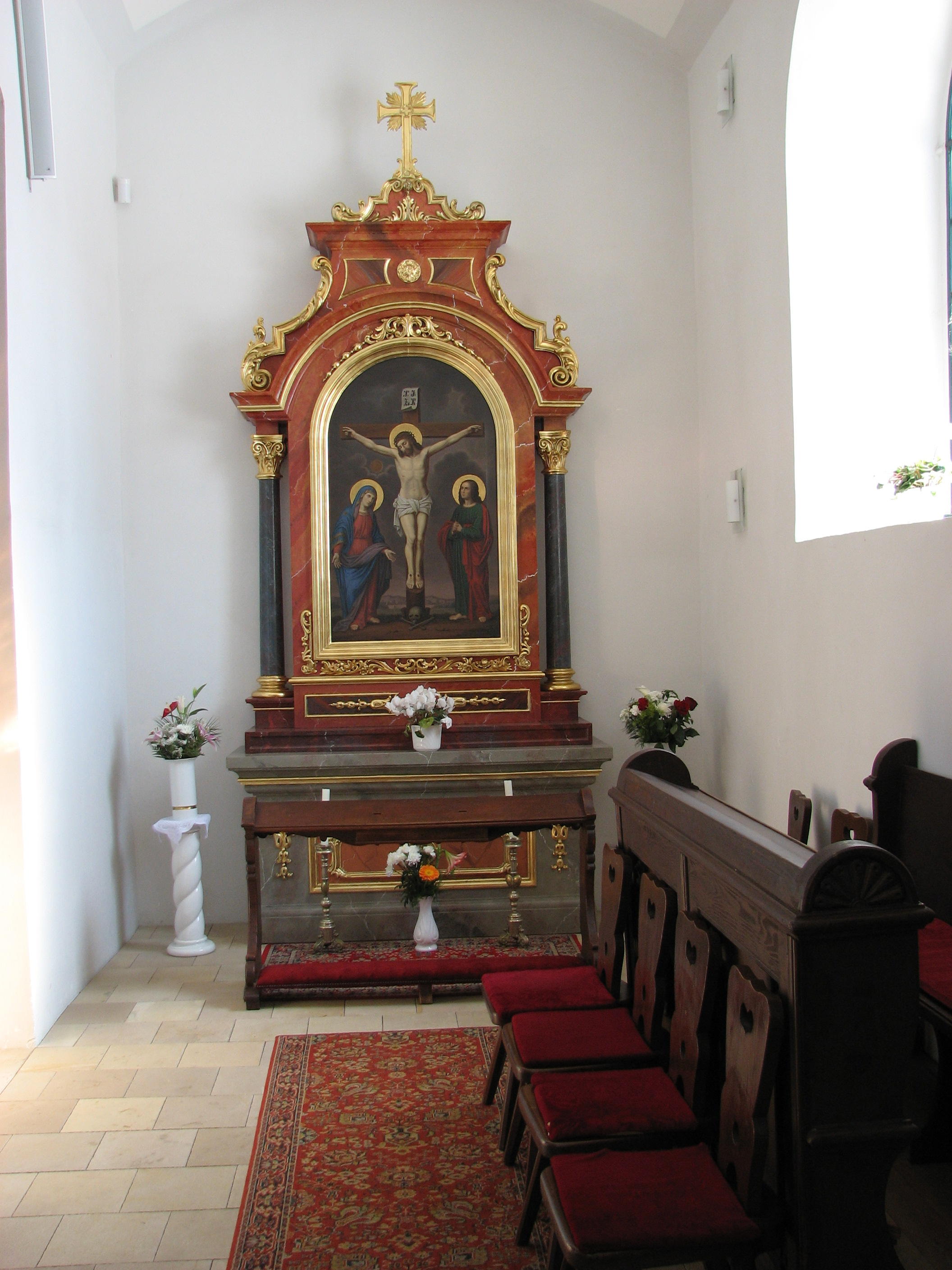 The Southern side nave of the Greek Catholic Cathedral of Hajdúdorog, Hungary. The main altar of the nave depicts the scene of the Crucifixion of Christ with the Virgin Mary on his left side and Saint John on the other.